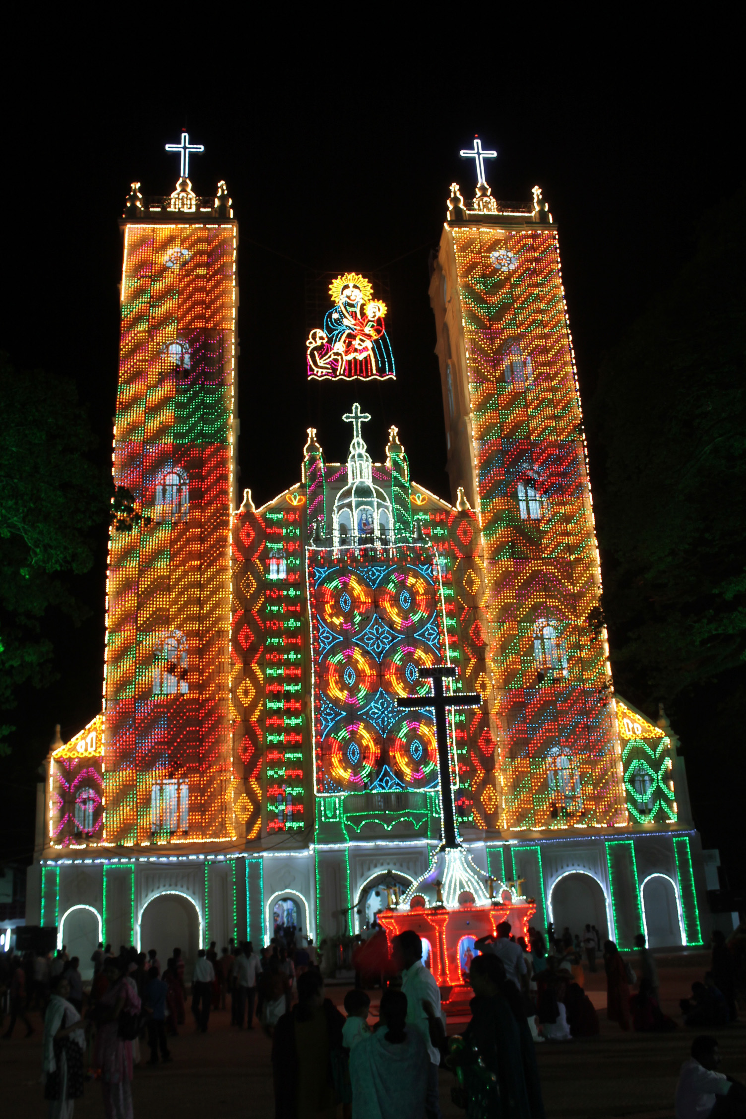 The Basilica of Our Lady of Vallarpadam, Vallarpadam is a famous centre of pilgrimage. People from all parts of Kerala and outside, irrespective of caste or creed go to the church to seek the blessings of Mary, the mother of Jesus, popularly known as "Vallarpadathamma". The church is lighted up for the Feast of Vallarpadathamma on 16 to 24 September every year. Wikipedia presently has photos of the church but not of the Church when lighted up.